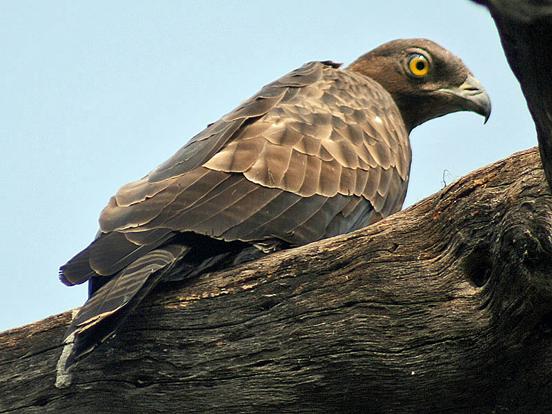 Oriental Honey Buzzard Pernis ptilorhyncus at Bharatpur, Rajasthan, India.